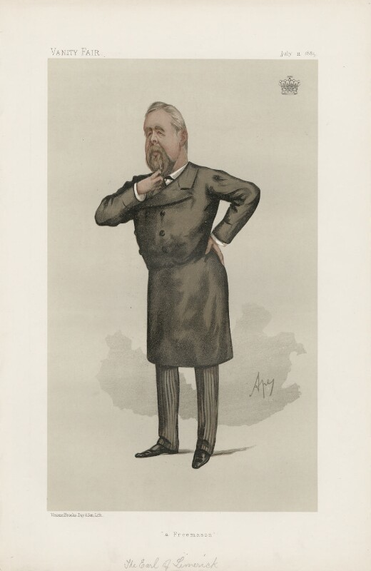 Caricature of William Pery, 3rd Earl of Limerick. Caption reads "a Freemason".